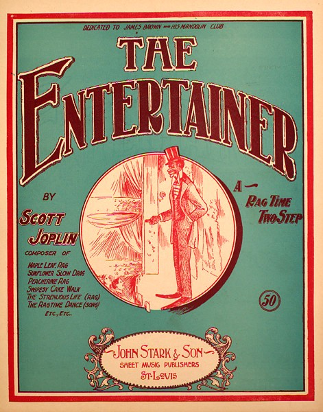 The Entertainer, 1902